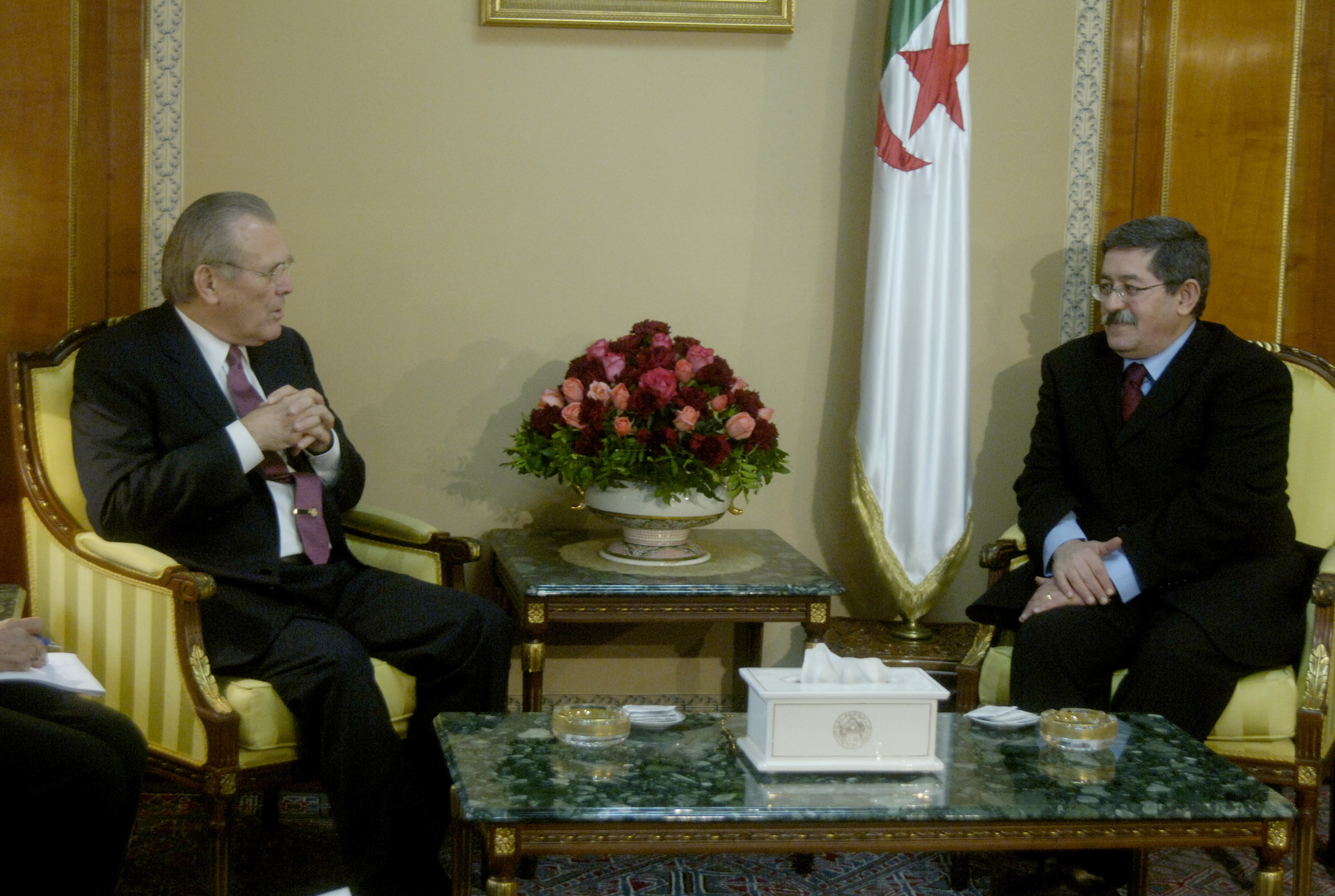 Secretary of Defense Donald H. Rumsfeld meets with Algerian Prime Minister Ahmed Ouyahia in Algiers, Algeria, on Feb. 12, 2006.